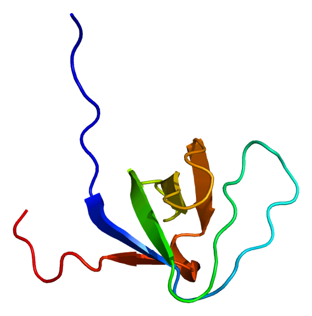 Structure of the SORBS3 protein. Based on PyMOL rendering of PDB 2ct3.